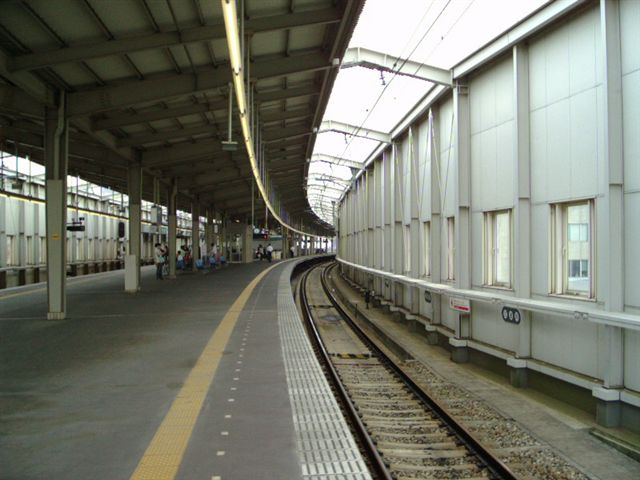 Station Home of Toyonaka Station(Photograpy:Nozomikobe/10 Jun,2006)